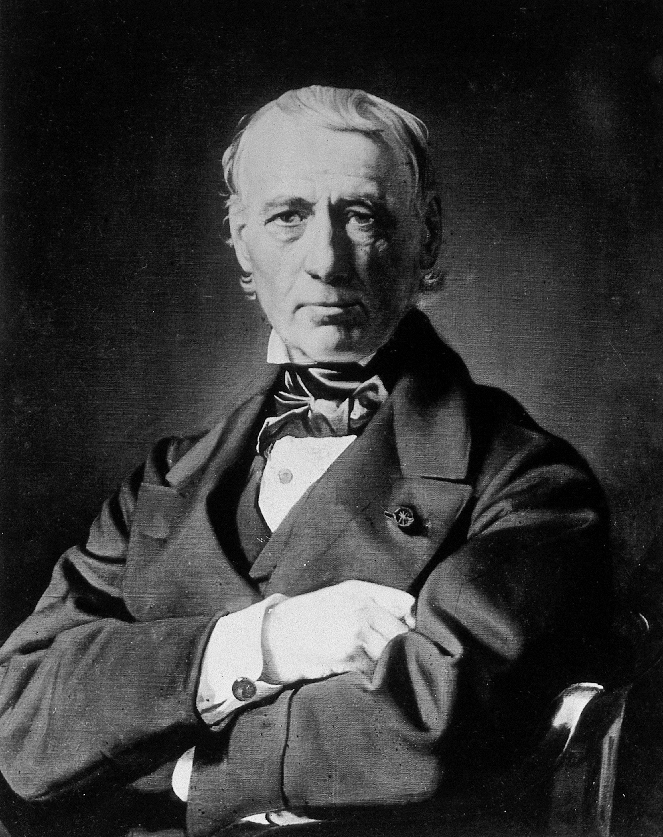 French physician Jean-Baptiste Bouillaud (1796-1881)